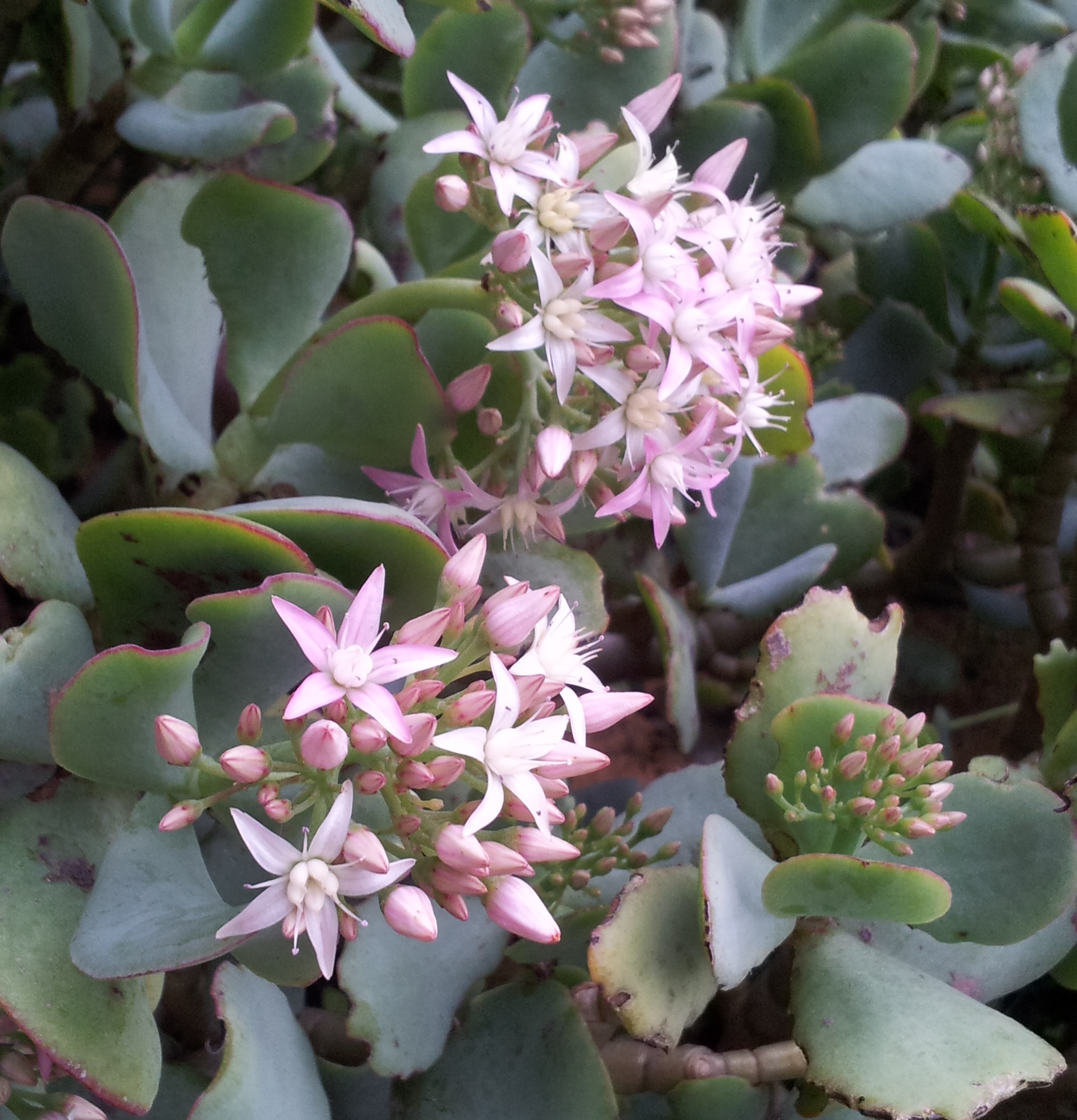 Crassula arborescens - flowers - Kirstenbosch gardens